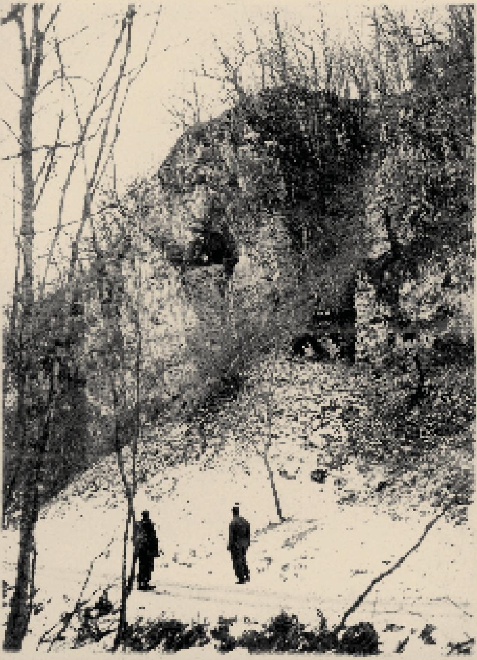 The Füzér-kő Cave.